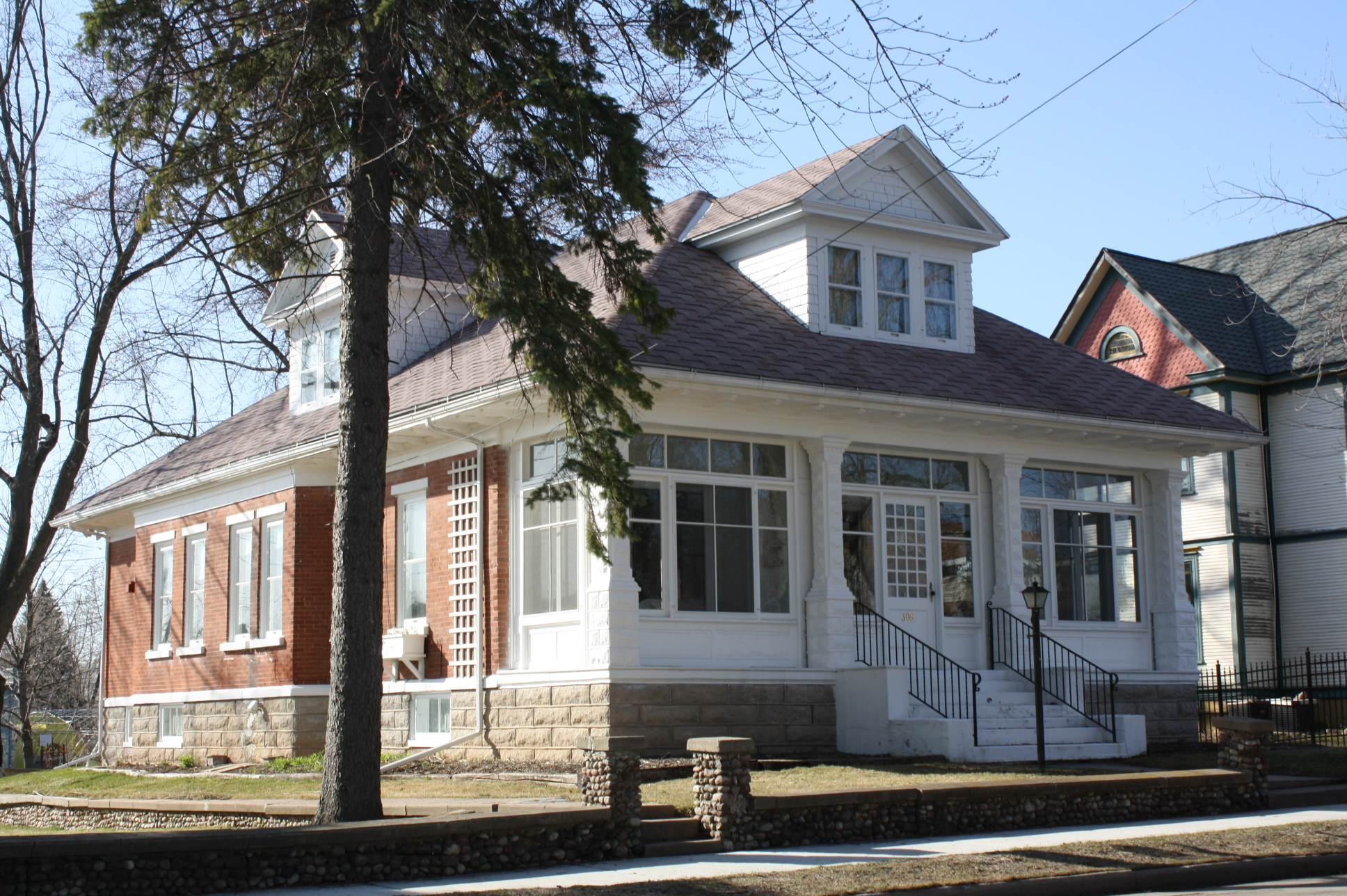 The George Peters House in Black Creek, Wisconsin. It is listed on the National Register of Historic Places.